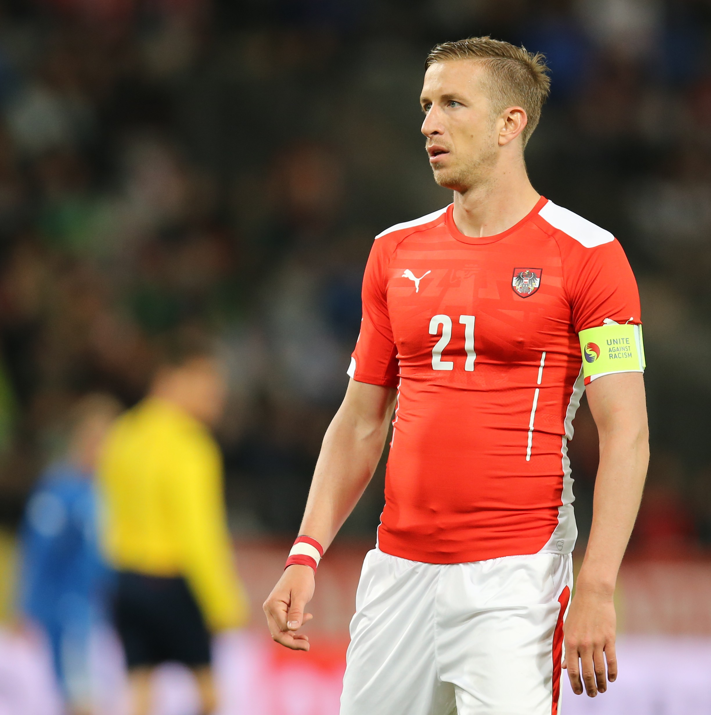 Austria - Iceland football match in Innsbruck, Austria on 2014-05-30. Austria in red, Iceland in blue.